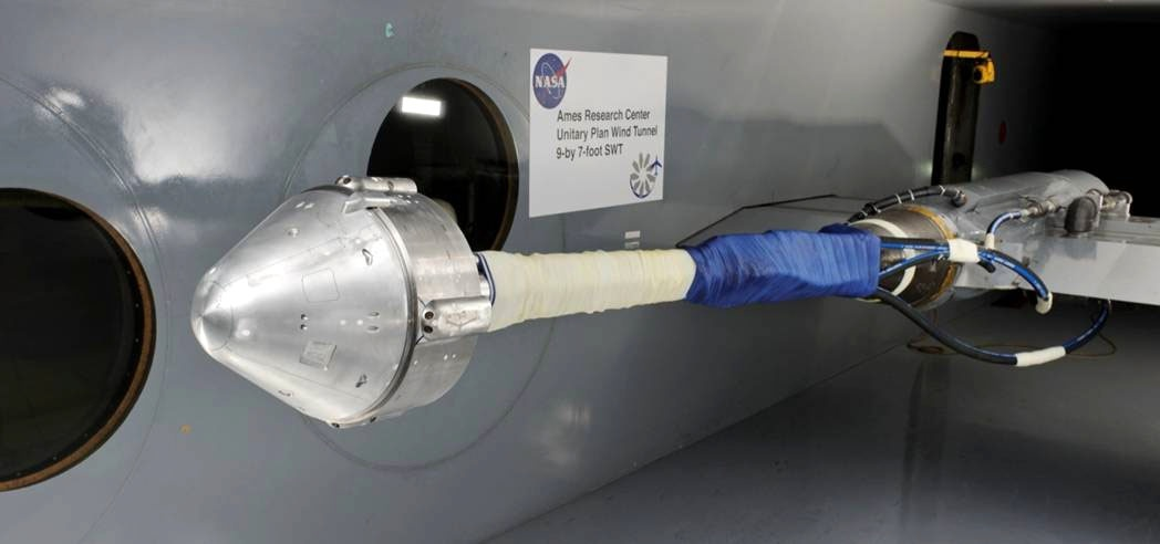 Boeing’s Wind Tunnel testing of the CST-100